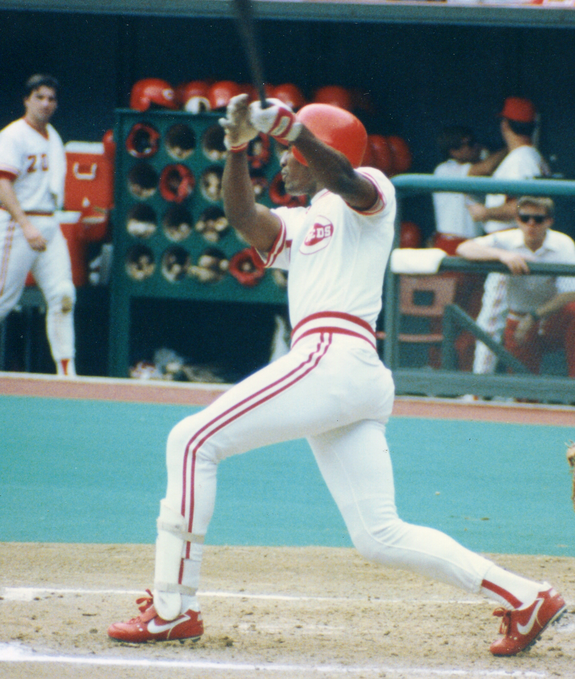 Mariano Duncan playing for the Cincinnati Reds at Riverfront Stadium in Cincinnati on October 3, 1990